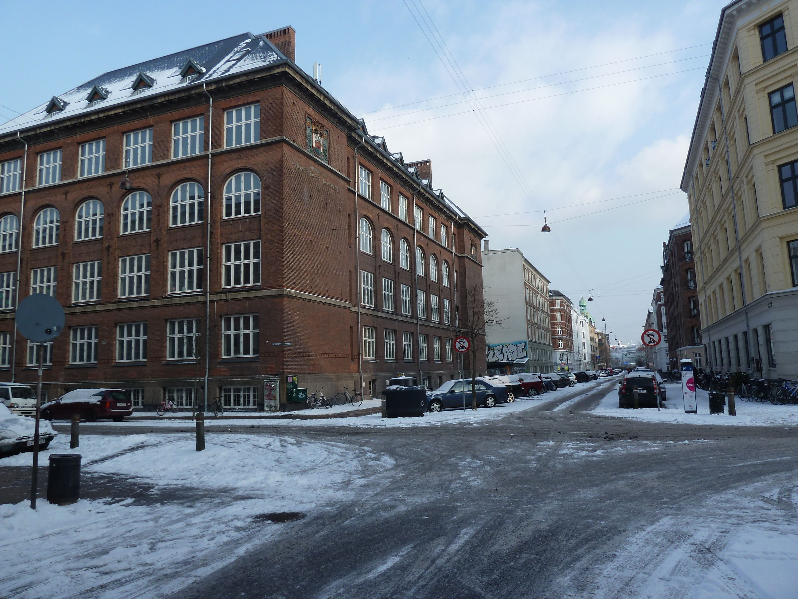 The street Holsteinsgade in Østerbro in Copenhagen. The big building on the is a school which were former named after the street, Holsteinsgade Skole.